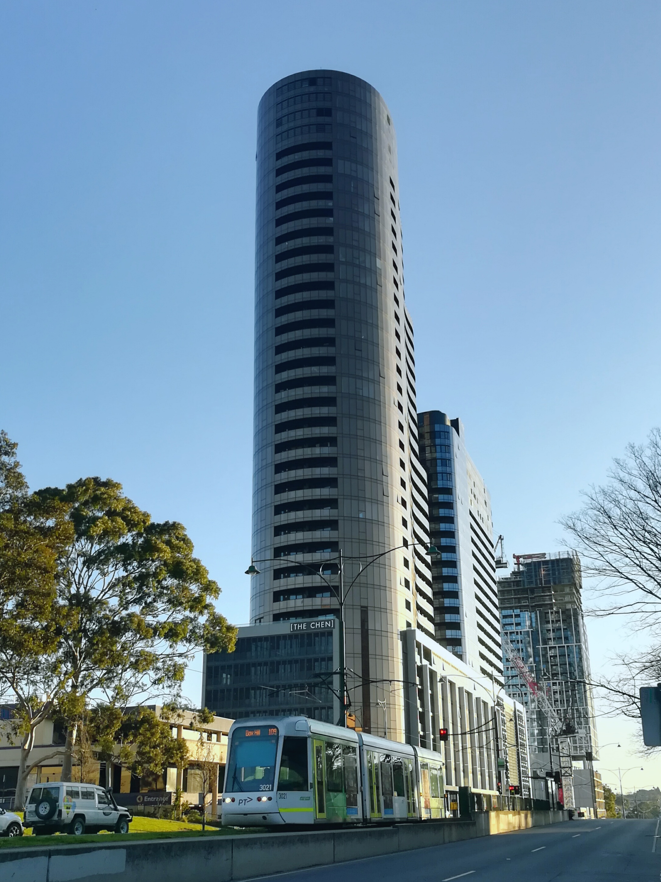 High Rise Buildings with a tram in the foreground, Box Hill, Melbourne, Victoria, Australia